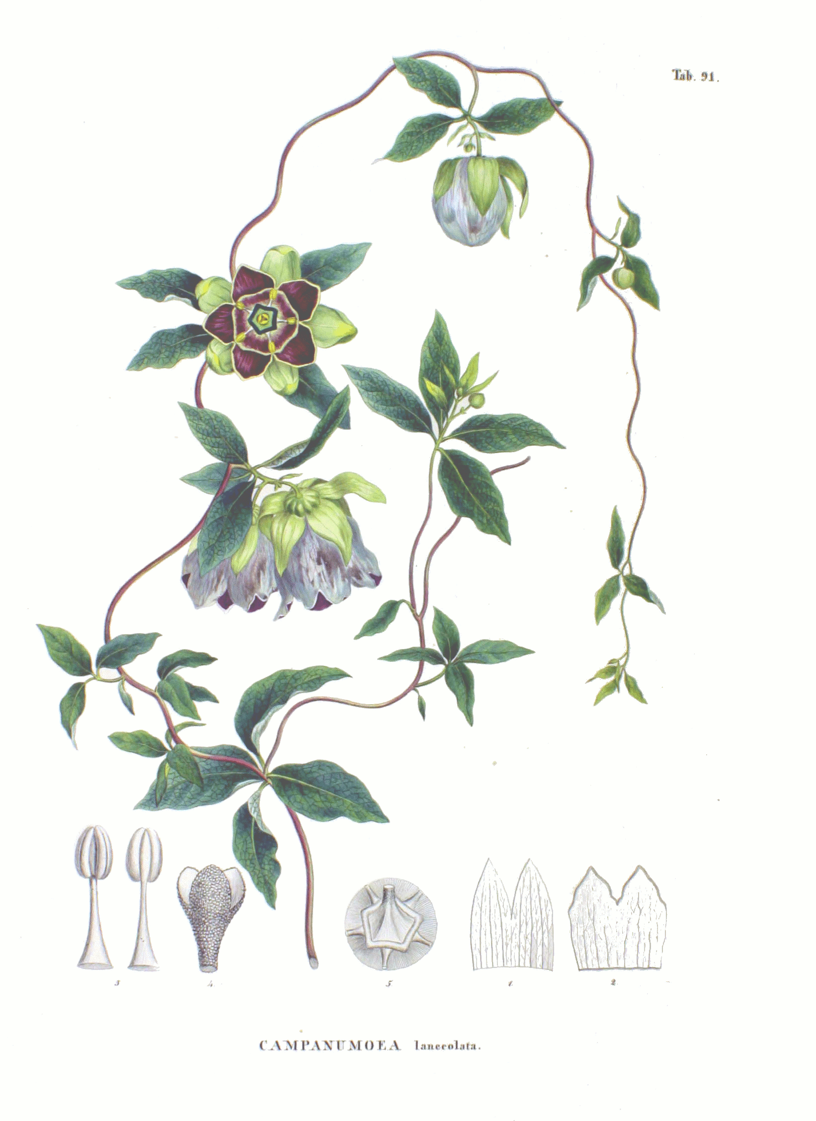 Plate from book